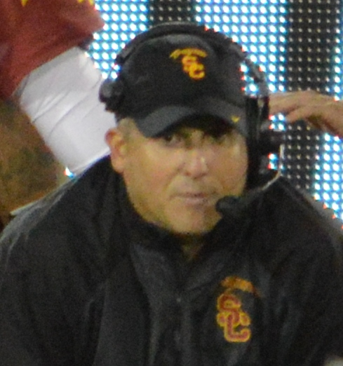 USC quarterbacks coach Clay Helton on Nov. 16, 2013 during the game against Stanford.